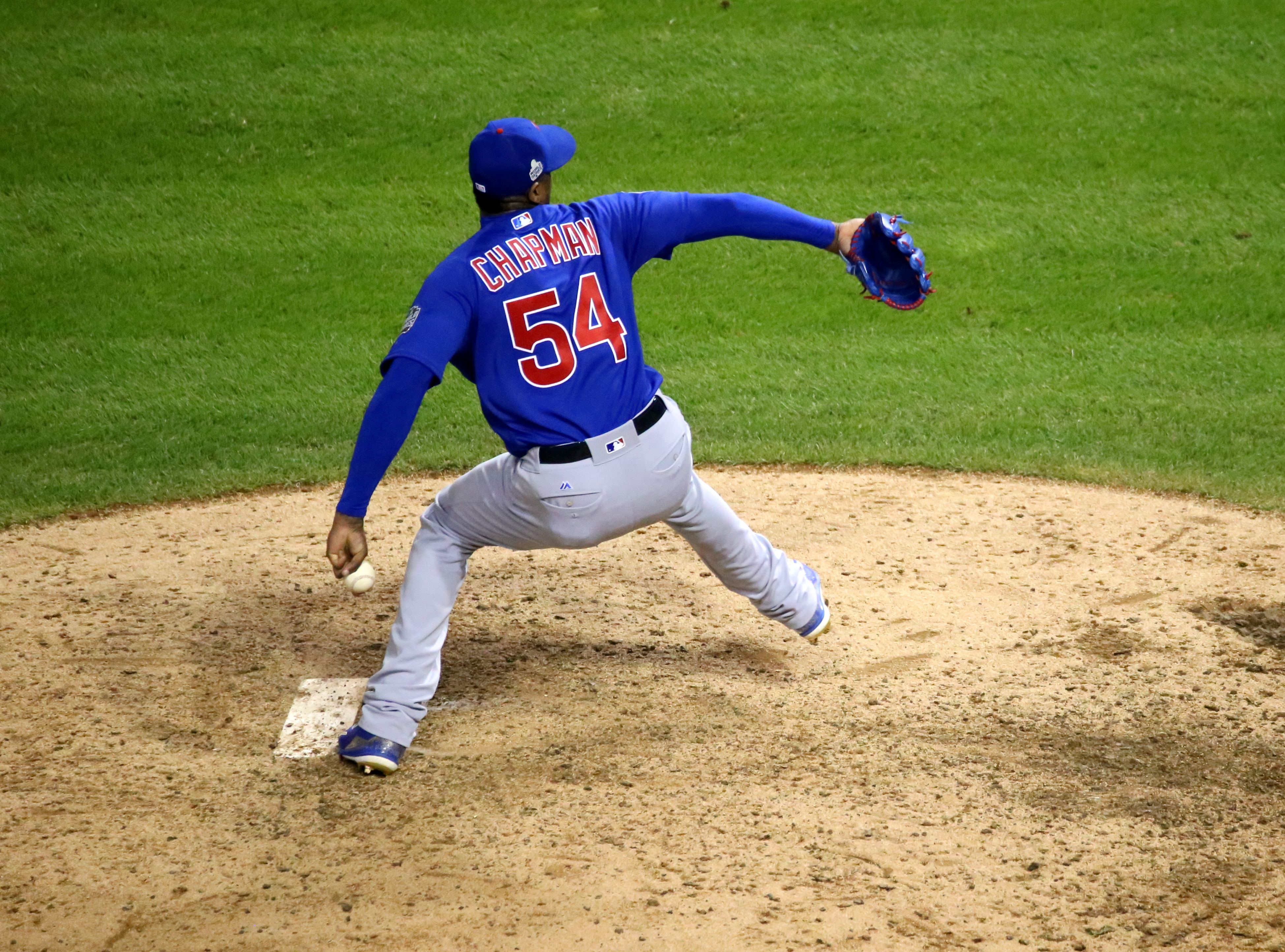 Aroldis Chapman throwing a pitch in the bottom of the eighth inning of Game 7 of the 2016 World Series between the Chicago Cubs and Cleveland Indians at Progressive Field in Cleveland, Ohio.